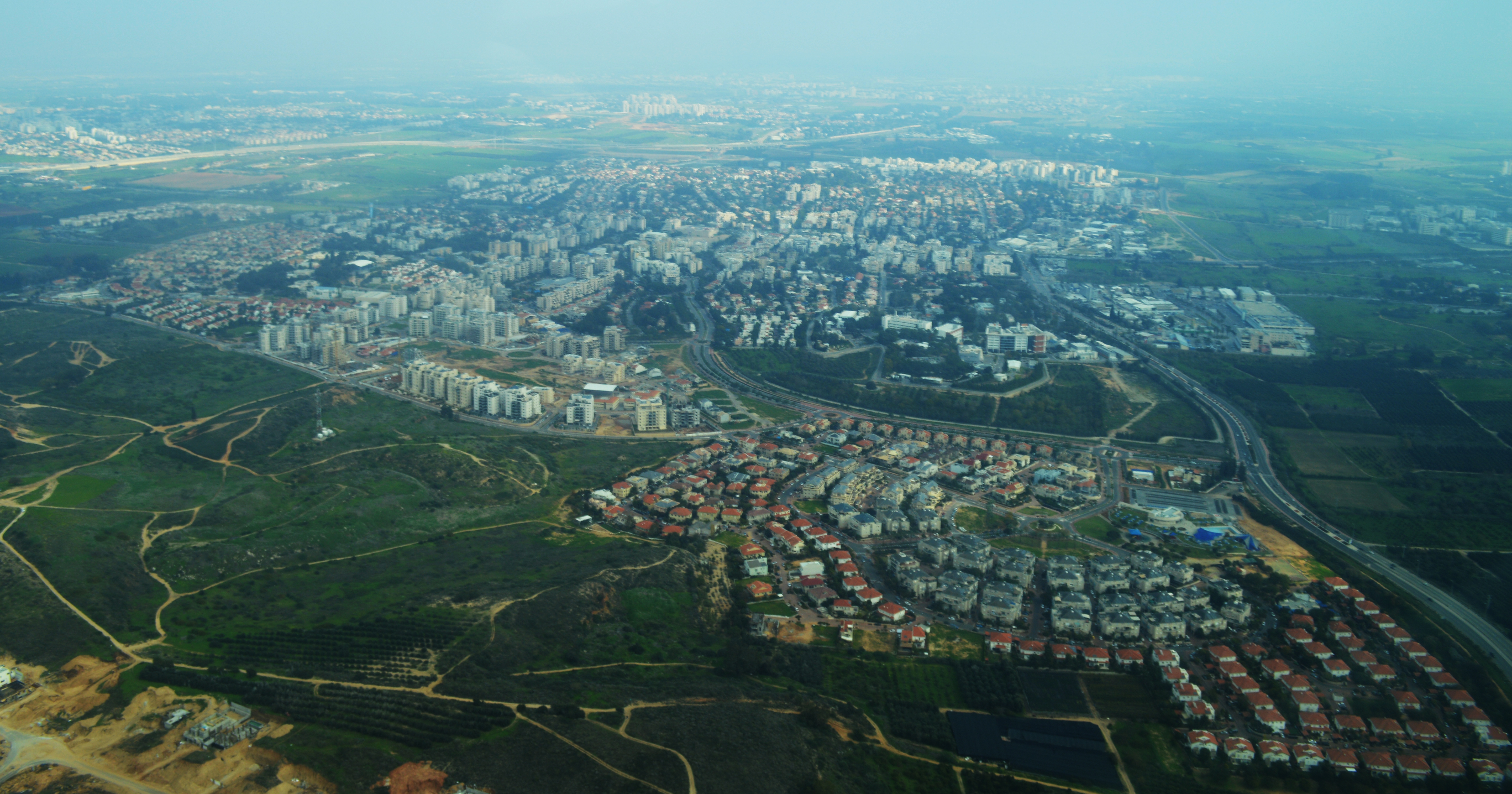 Ness Ziona Aerial View